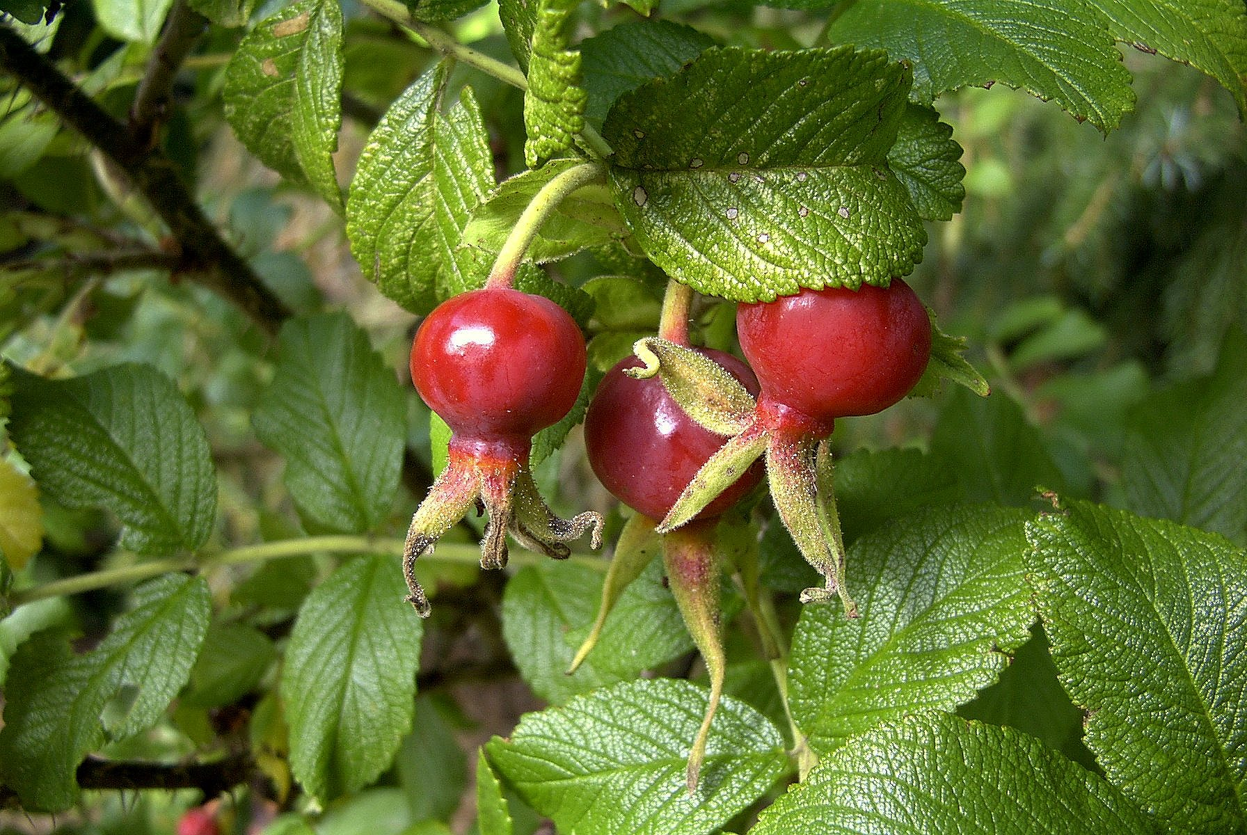 Rose hips on a shrub, picture taken by Uwe H. Friese from Bremerhaven in 2002